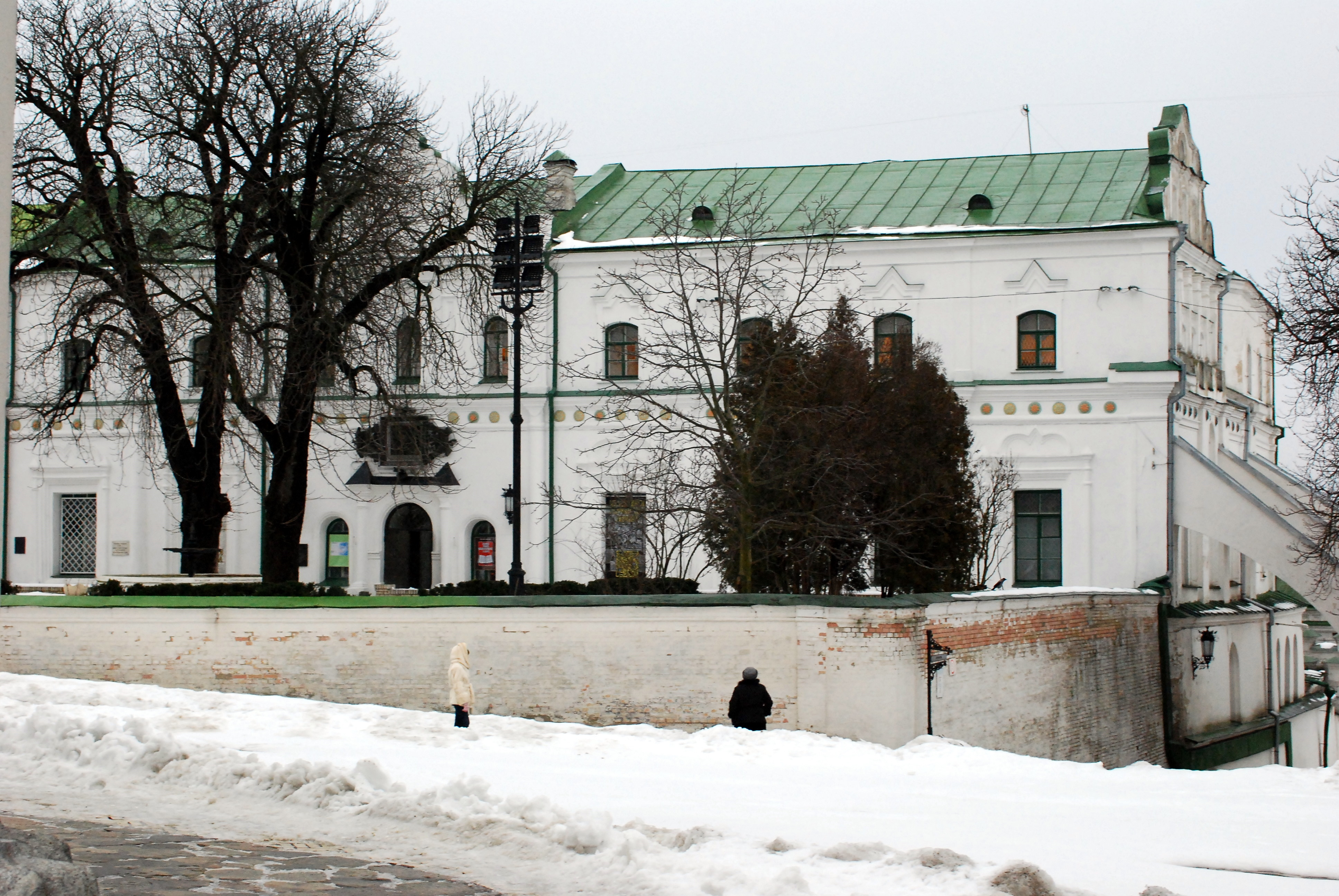 Museum of Books in the Kiev Pechersk Lavra